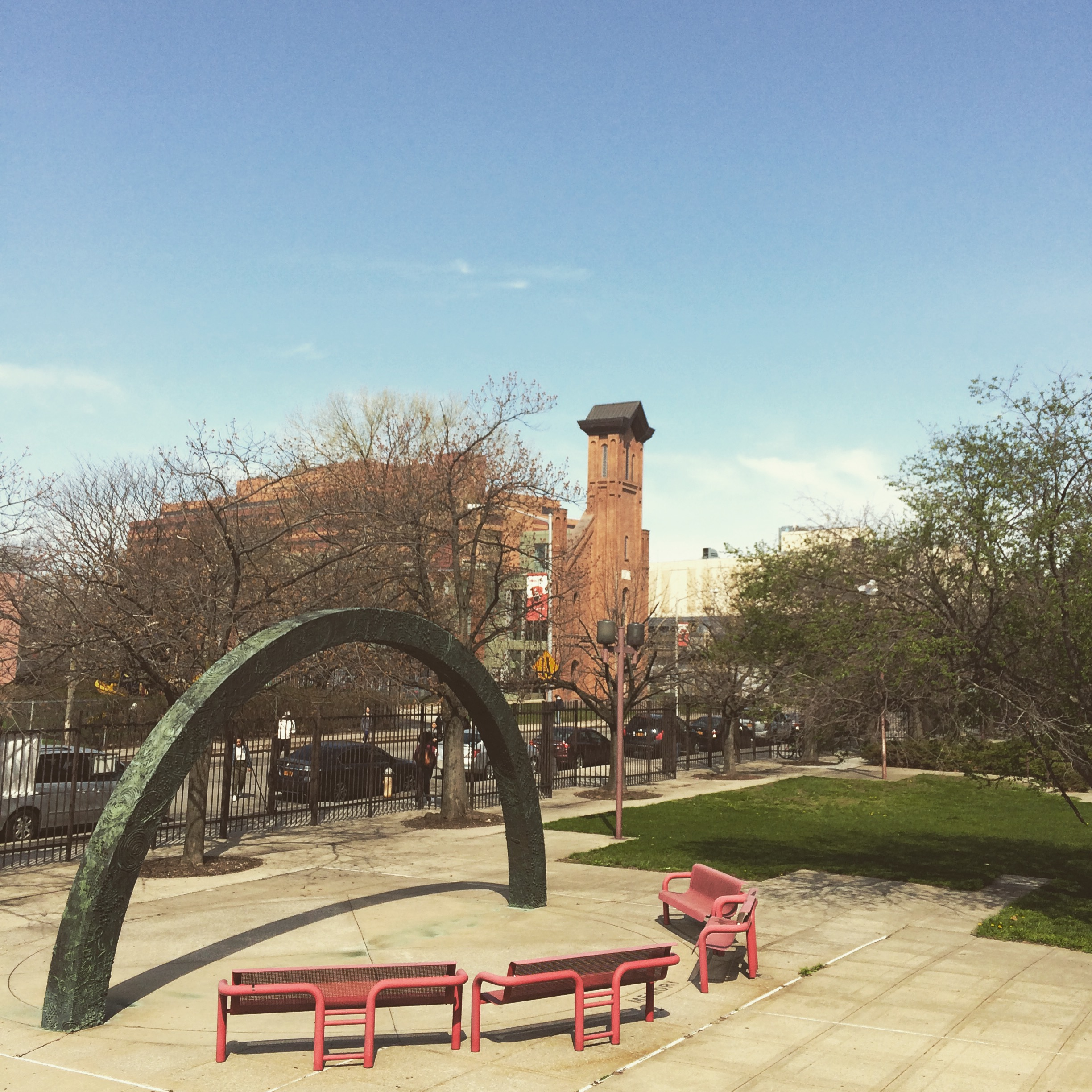 Exterior shot taken at York College of the City University of New York